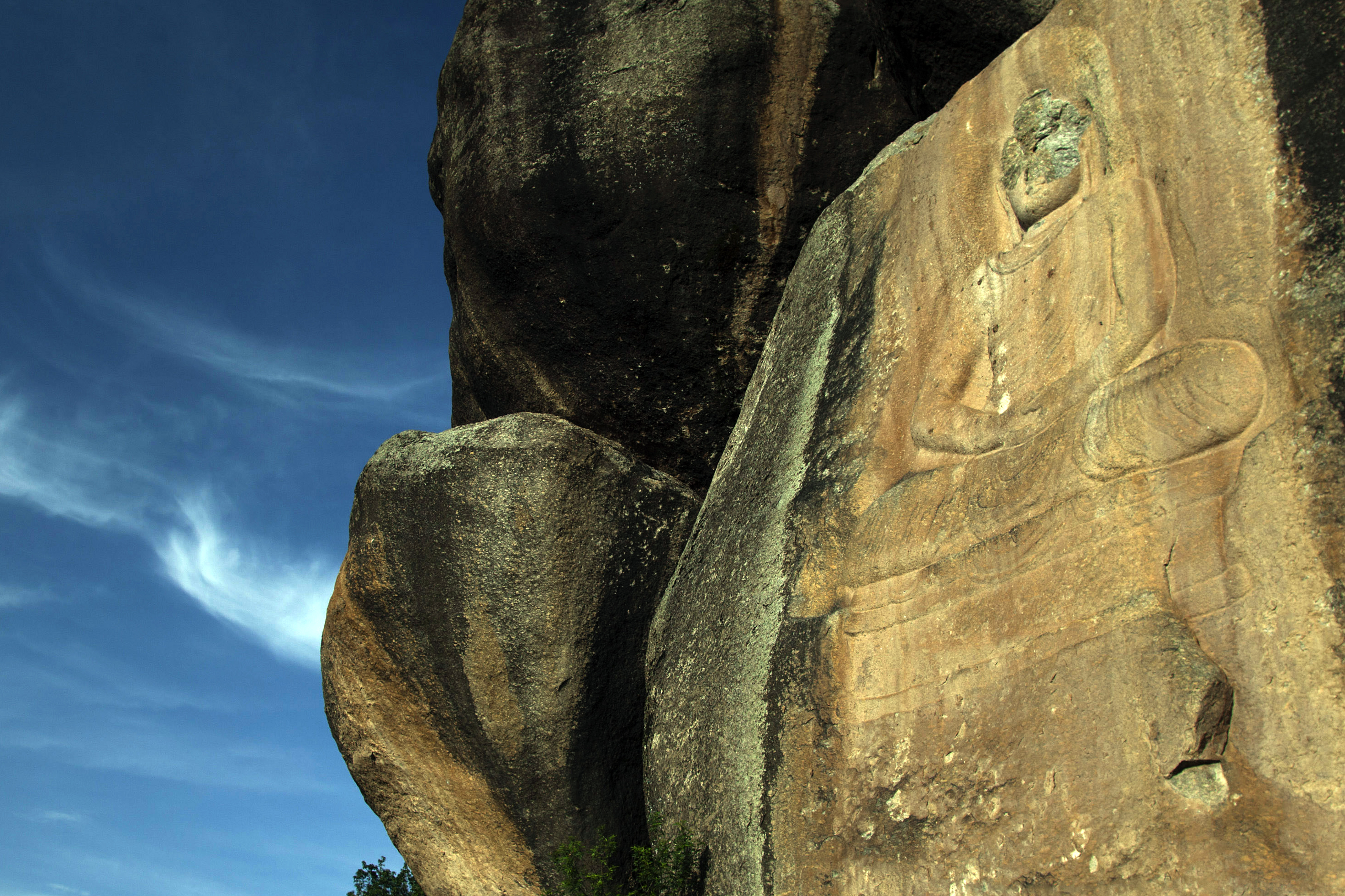 Manglawar stupa damaged in Taliban war. This is a photo of a monument in Pakistan identified as the KPK-71